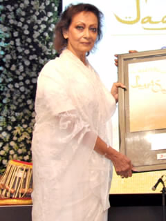 Chitra Singh pays tribute to Jagjit Singh on his anniversary